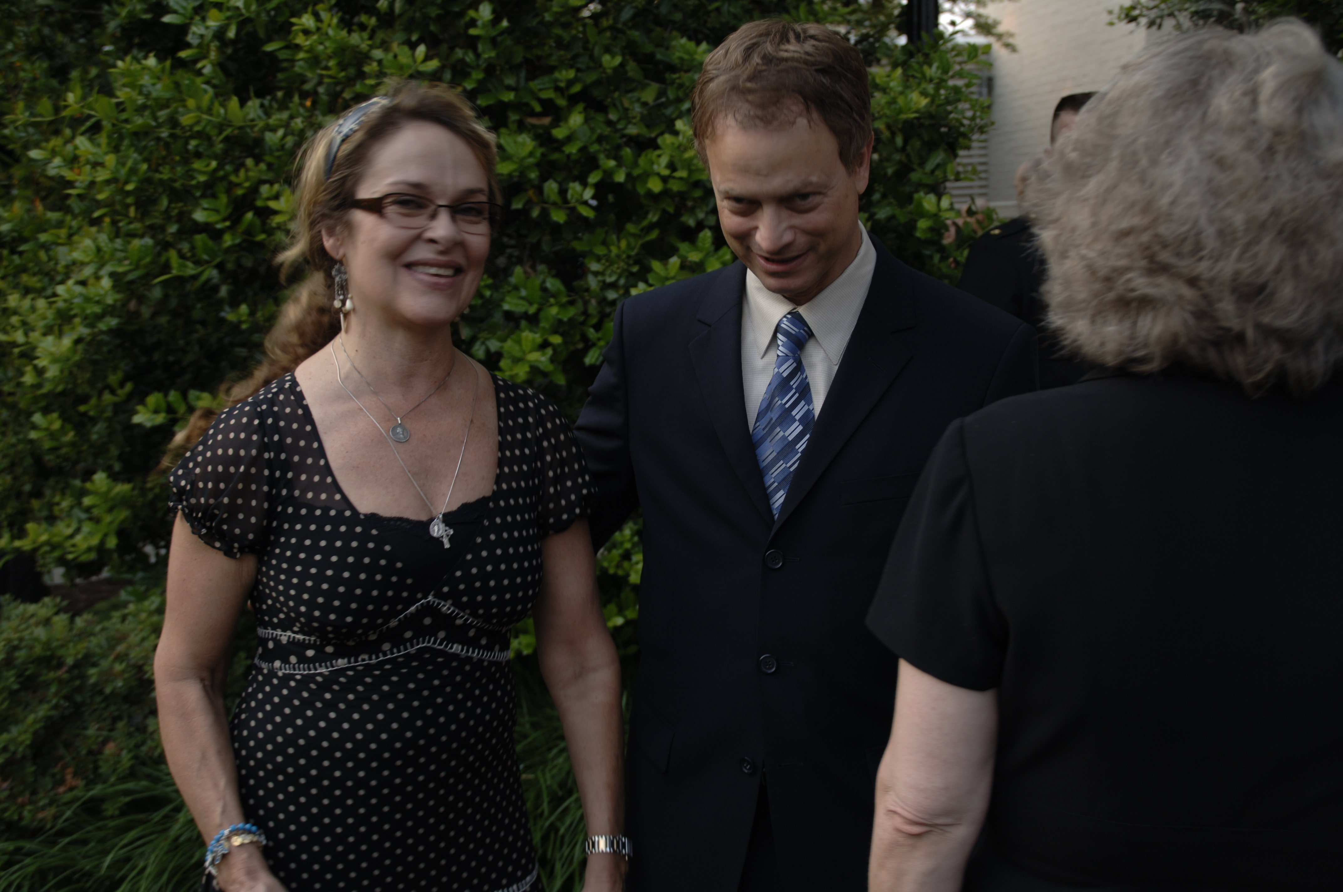 Actor Gary Sinise, center, and his wife, Moira Harris, left, attend an Evening Parade reception at the Home of the Commandants in Washington, D.C., May 25, 2007. Evening parades are held every Friday at Marine Barracks Washington during the summer months.